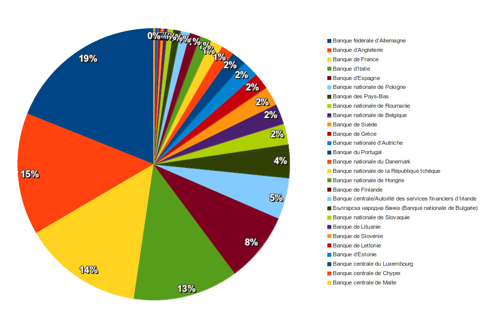 Shareholders of European Central Bank (ECB) capital